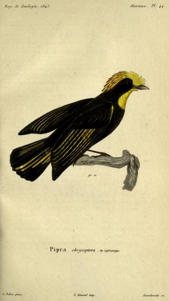 Masius chrysopterus = Pipra chrysoptera, Lafresnaye